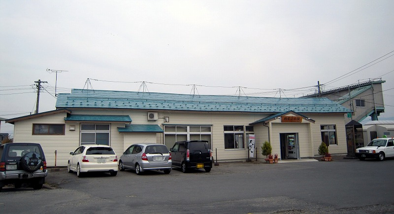 JR Yonesaka line Uzen-Komatsu station (Kawanishi town,Yamagata pref,Japan).